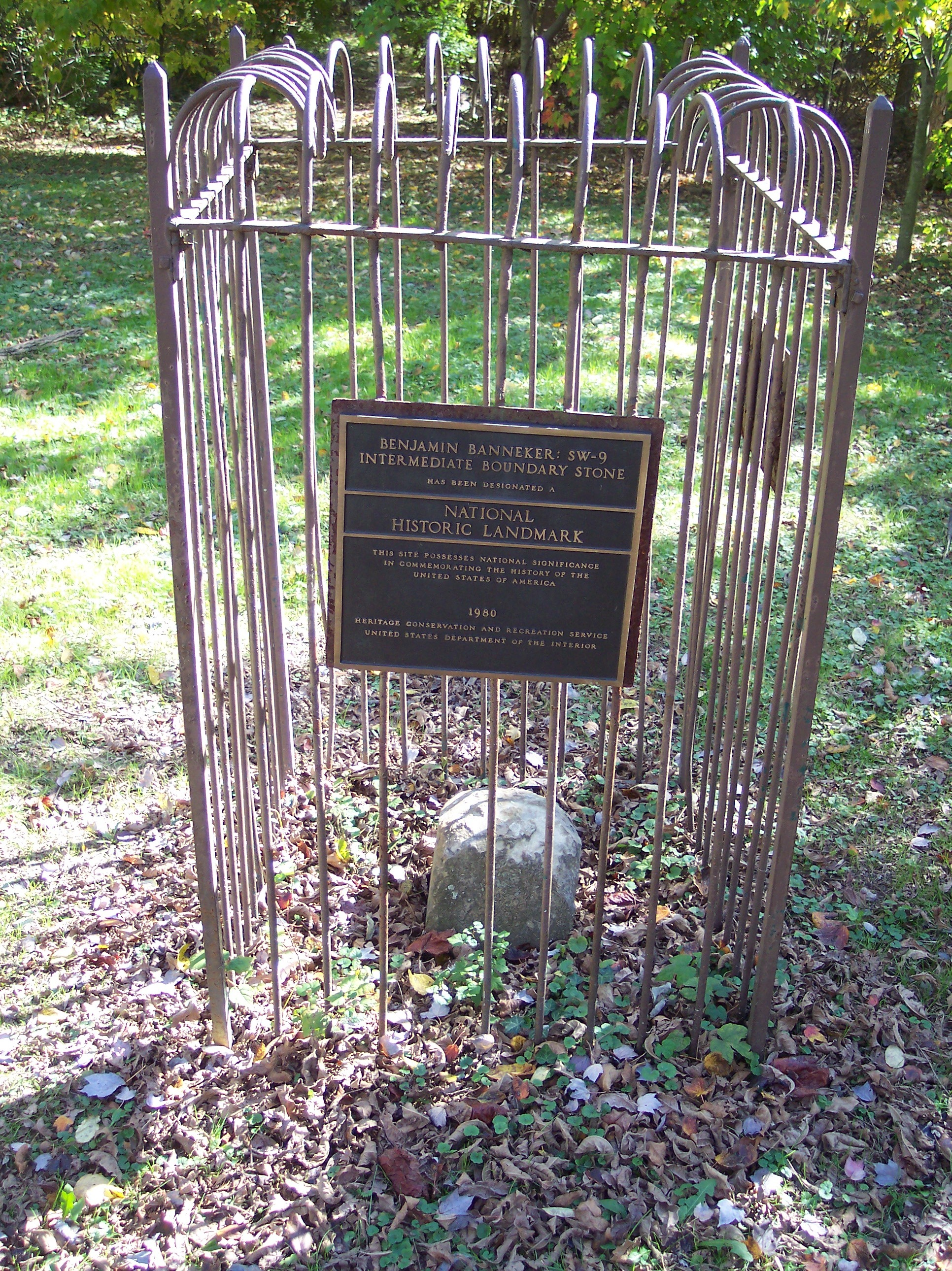 District of Columbia boundary marker SW9, taken 21 October 2012